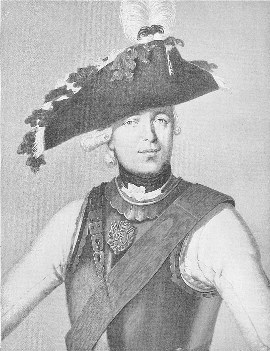 Friedrich Wilhelm von Seydlitz